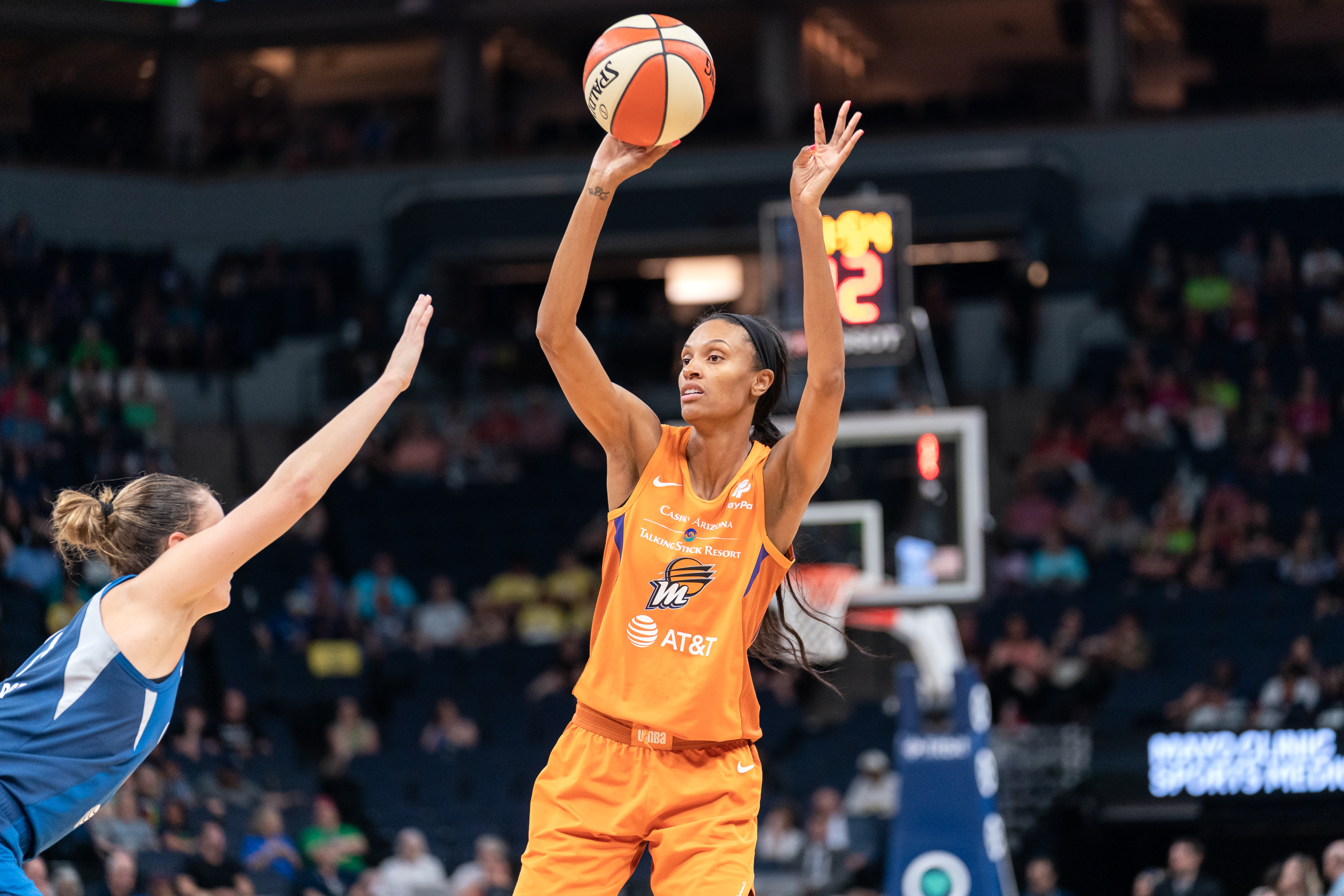 Minnesota Lynx vs Phoenix Mercury at Target Center in Minneapolis, MN on July 14 2019; the Lynx won the game 75-62.